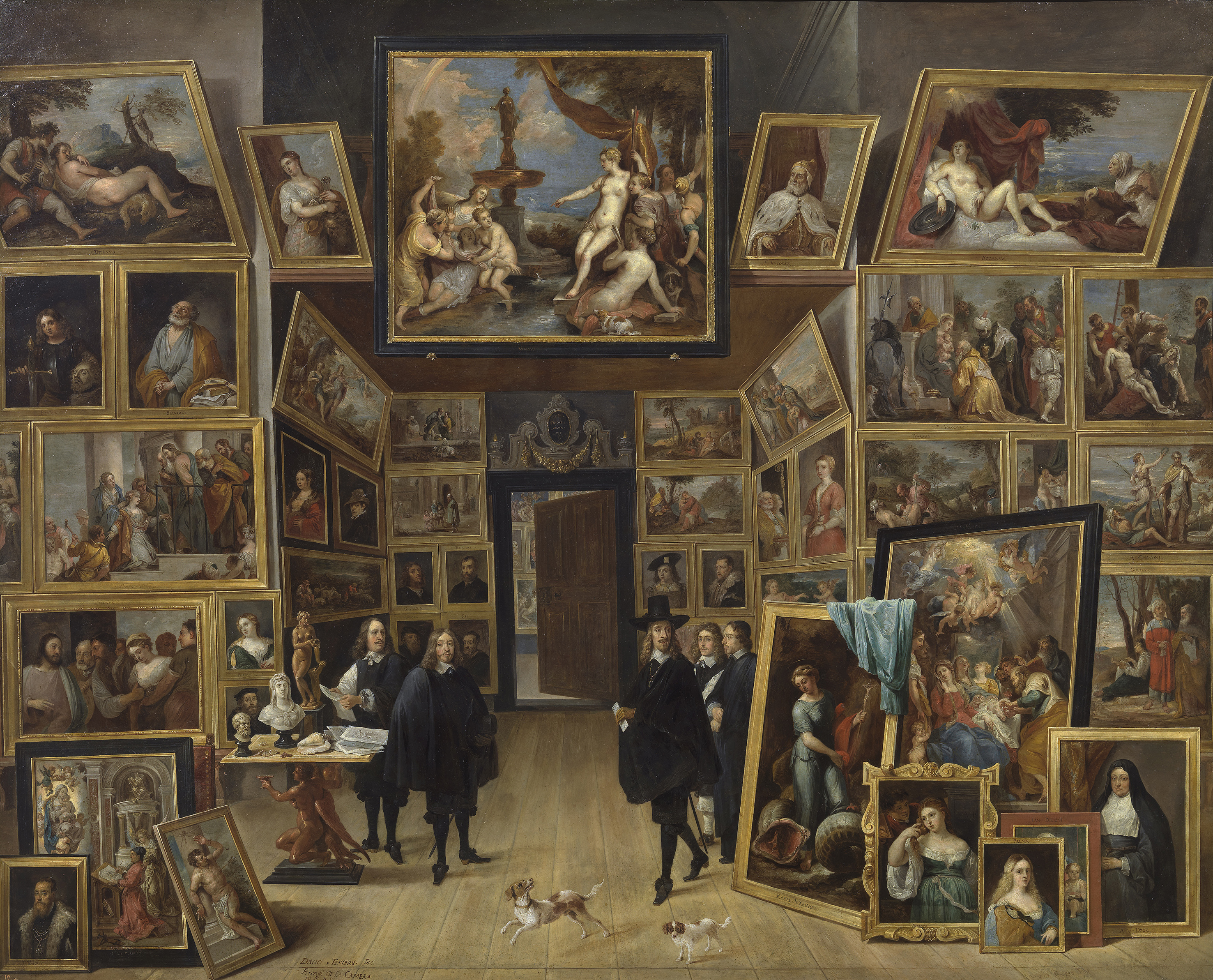 The Archduke, wearing a hat, is showing his pictures, almost half of them by Titian. Other Venetians represented are Giorgine, Antonello da Messina, Palma Vecchio, Tintoretto, Bassano and Veronese; there are also Mabuse, Holbein, Bernardo Strozzi, Guido Reni and Rubens. The sculpture supporting the table, is Ganymede, a bronze by Duquesnoy the Younger. Four gentlemen, are with the Archduke, one of whom is Teniers, his court painter.